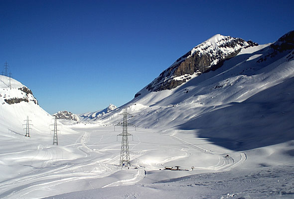 View from Gemmipass towards north on the frozen Daubensee